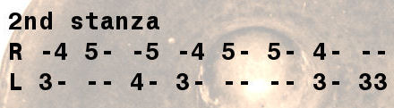 An example of the cipher notation/script used for notating Philippine kulintang music. This is an excerpt from a composition called Sinulog a Kamamatuan Ver. 4.